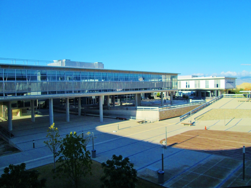 Square with gardens at University of Cyprus main buildings Nicosia Republic of Cyprus 1